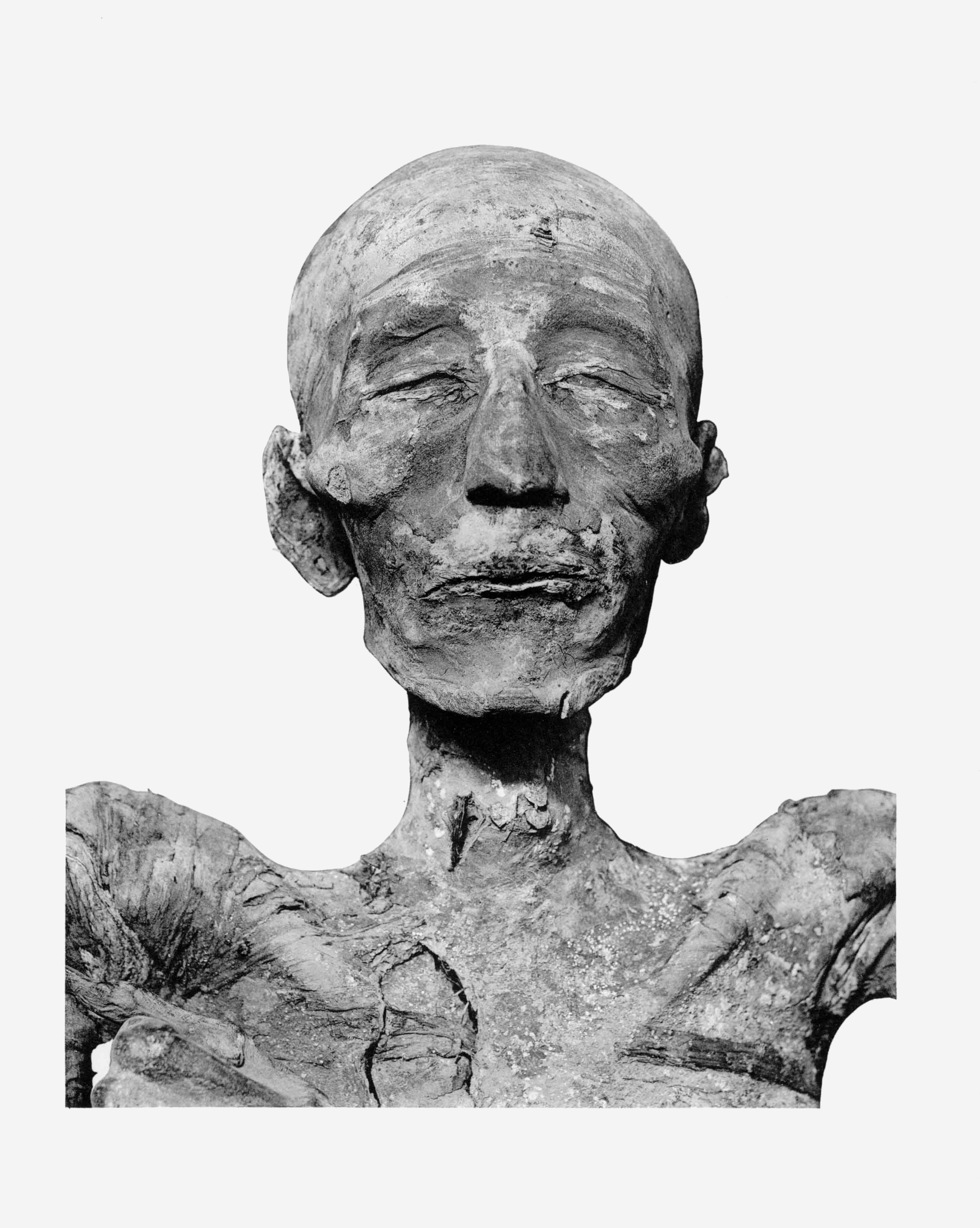 Head of mummy of pharaoh Merneptah.